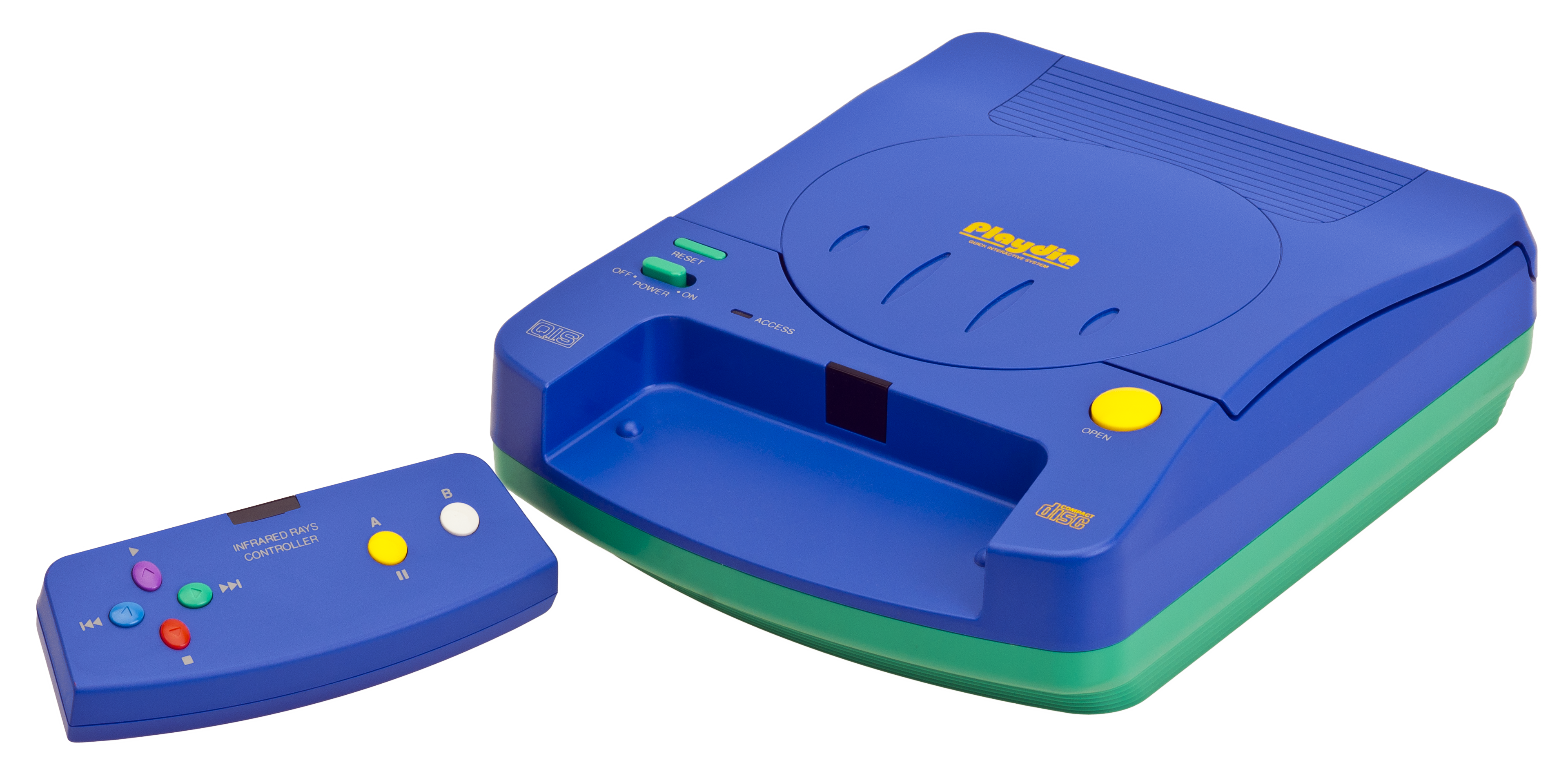 The Bandai Playdia. A Japan-only video game console released in 1994. The controller is wireless and fits into the recess on the front of the system.